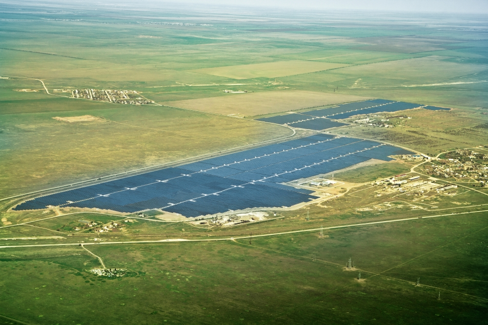 Okhotnykovo Solar Park, Crimea